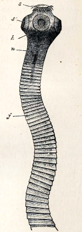 The pork tapeworm (Taenia solium); Taeniidae; showing the head (h) with its suckers (s') and crown of hooks (s), the unjointed neck (n) and a few of the succeeding joints (j)